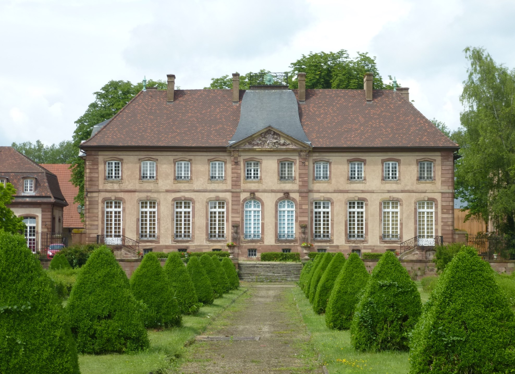 Baroque sandstone castle built 1749-1751 by the Baron de Dietrich in Bischheim near Strasbourg, Alsace, France